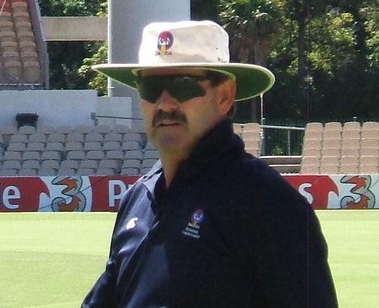 Les Burdett at a training session at the Adelaide Oval